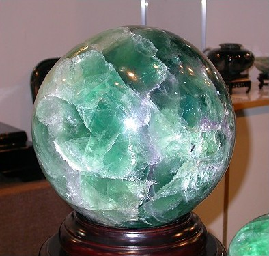 green colour fluorite sphere, 綠顏色螢石